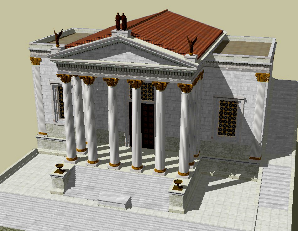 This is a derivative work of a 3D, Computer generated image of the Temple of Concord by the model maker, Lasha Tskhondia - L.VII.C.[1]. Variations to the original model include shadows, adjusted for good lighting as well as the file being adjusted for color and contrast.